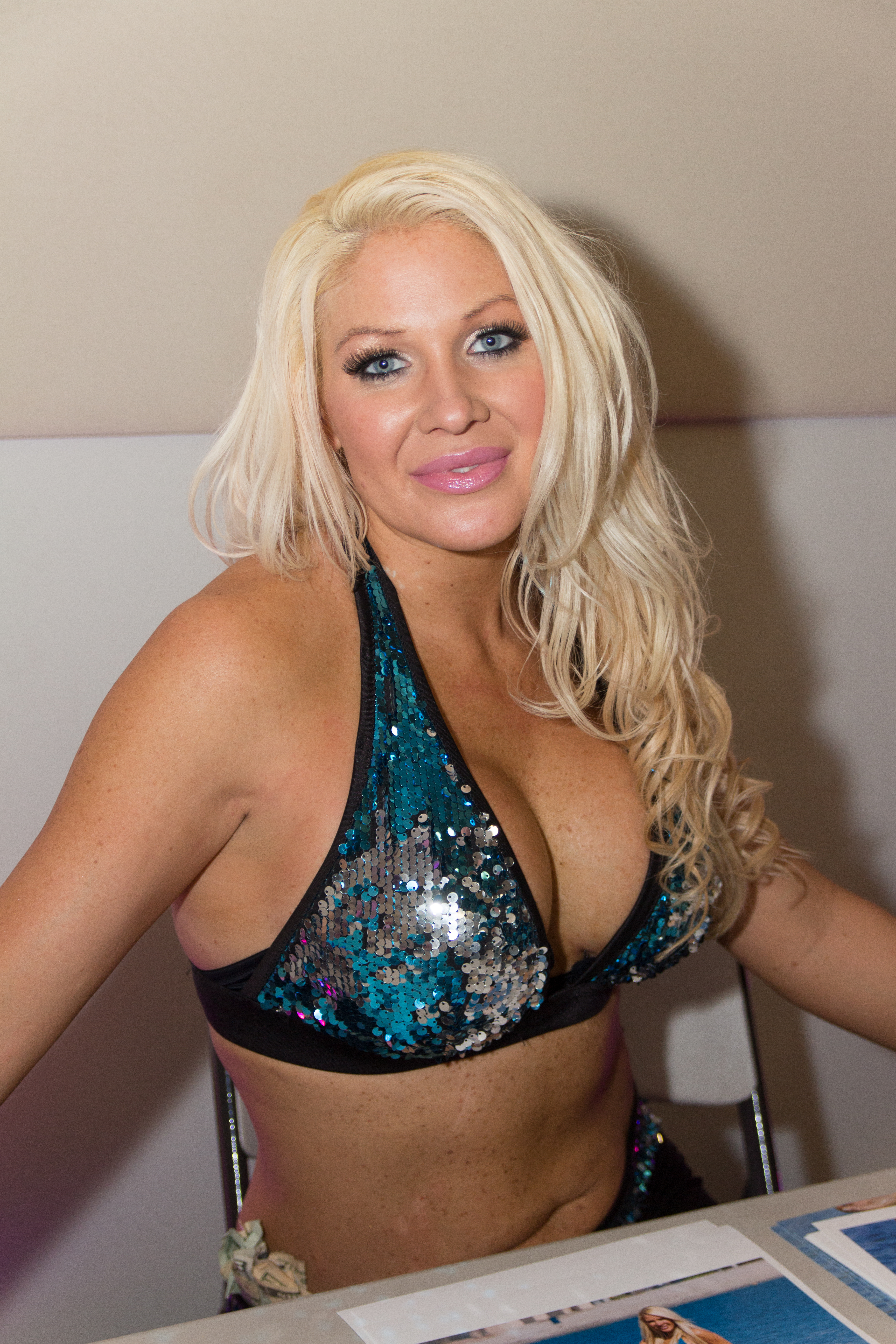 Female wrestler Jillian Hall at an Xtreme Bombshells of Wrestling show in Port Huron, MI